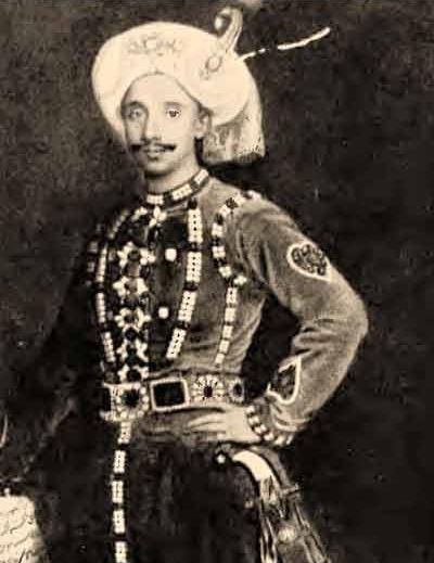 Default property of Government of India. Available for unrestricted use without any copyright with the Victoria Memorial Hall and Museum, Government of India; Calcutta.